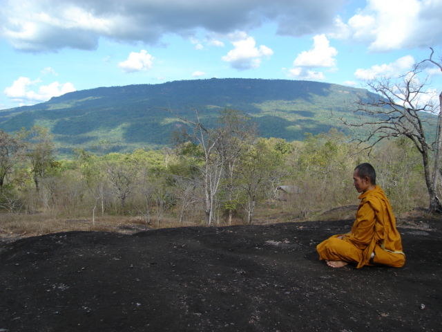 Buddhist monk in Phu Kradung National Park, Thailand Location: Amphoe Nam Nao, Phetchabun, Thailand.